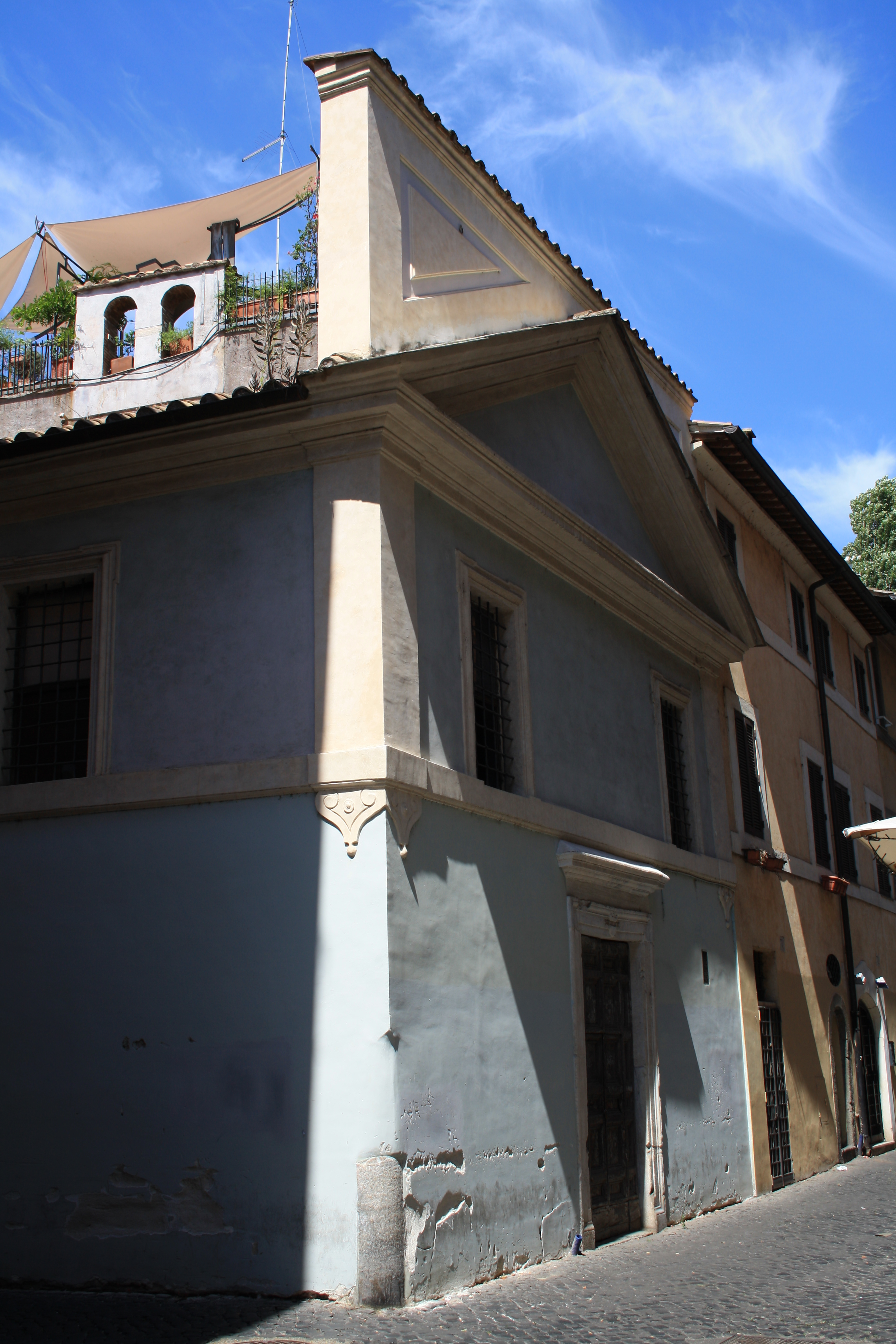 Church of Sant'Andrea dei Vascellari, Rome